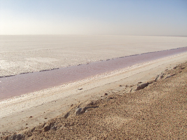 water sabkha, salt